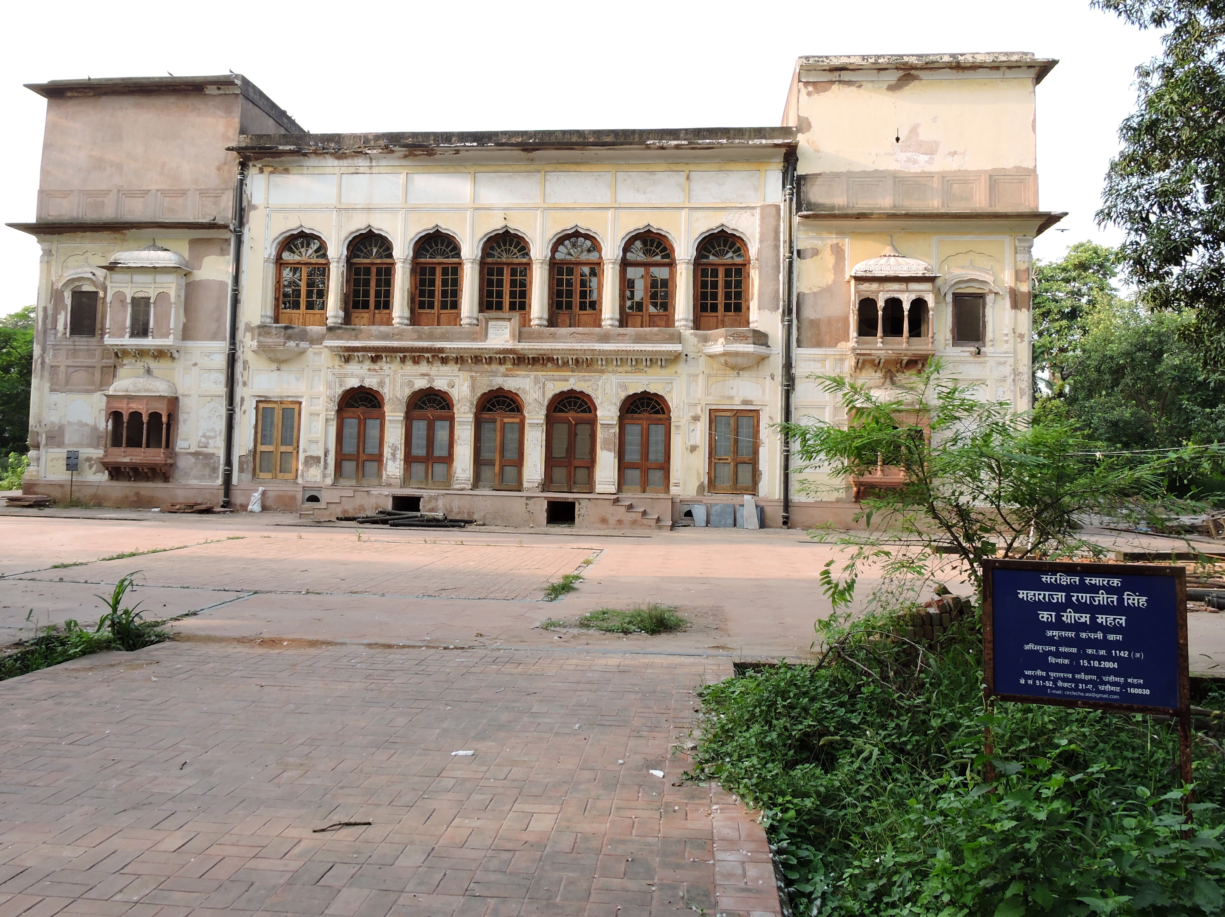 Summer palace of Ranjit Singh, the founder Sikh Empire, Amritsar, Punjab, India